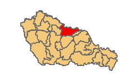 Location of municipality inside Međimurje County